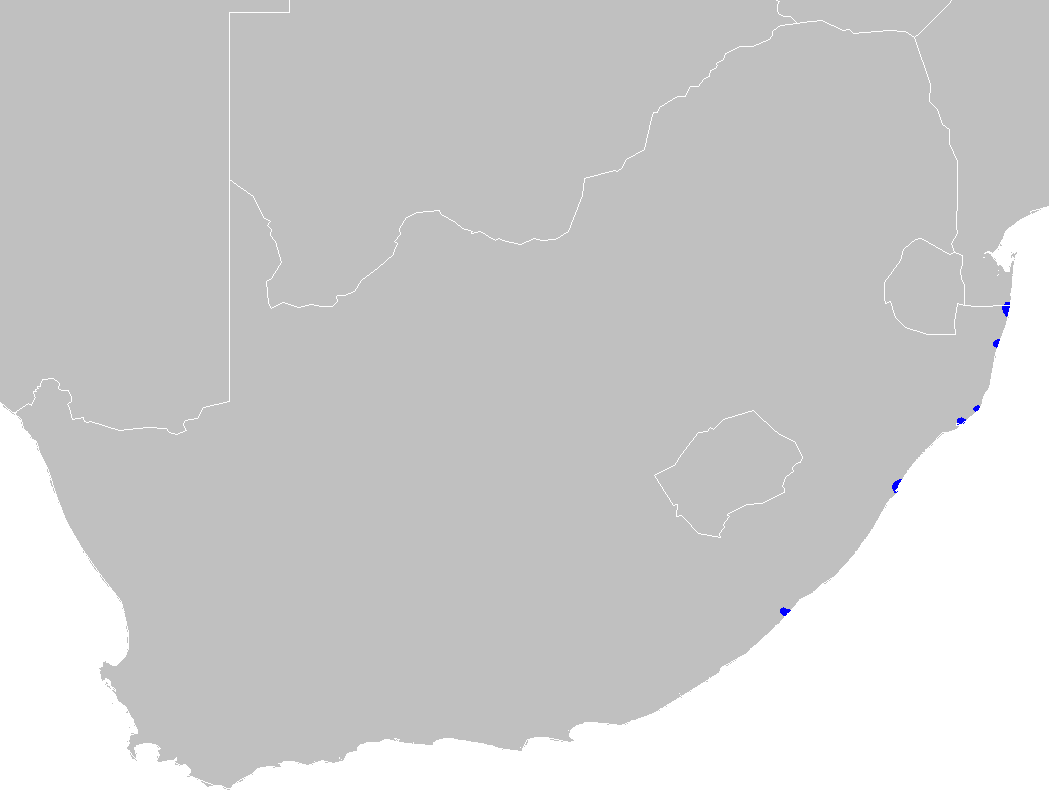 The Southern African mangroves ecoregion